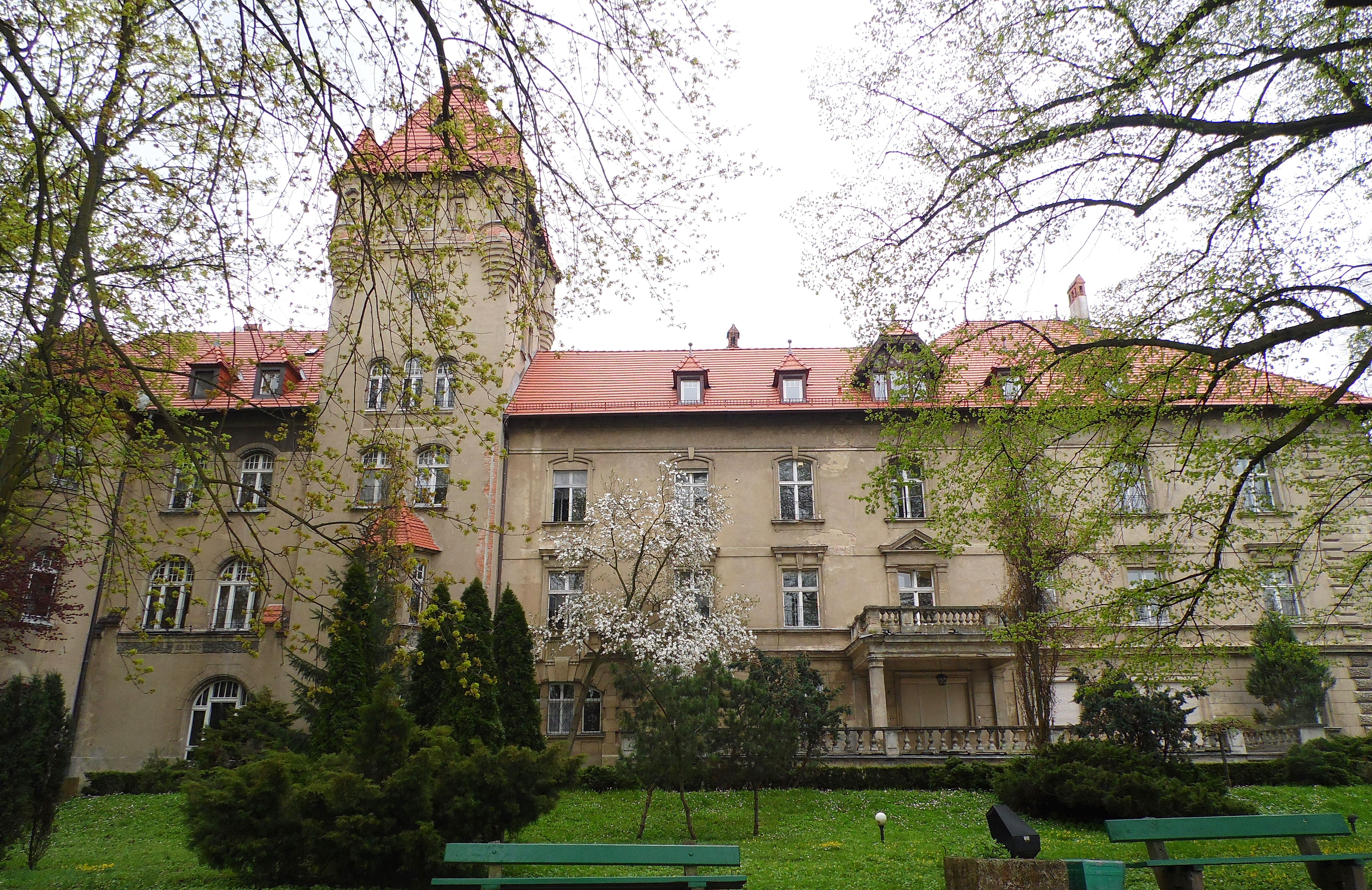 Castle from 1530, the beginning of the seventeenth century, 1890, Osieczno / area. Leszno / province. Greater Poland / Poland